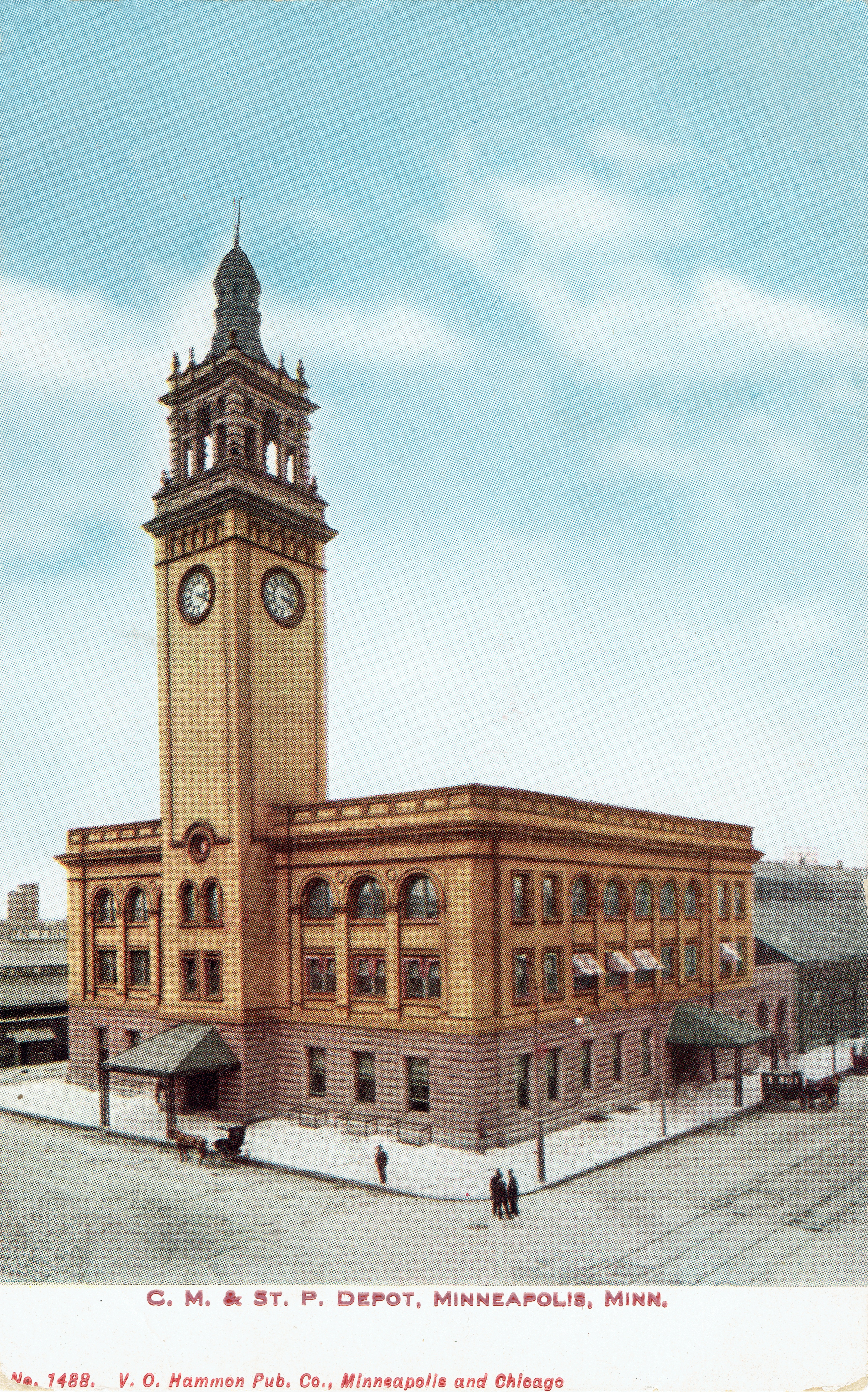 A postcard of C. M. & St. P. Depot, Minneapolis, Minn..